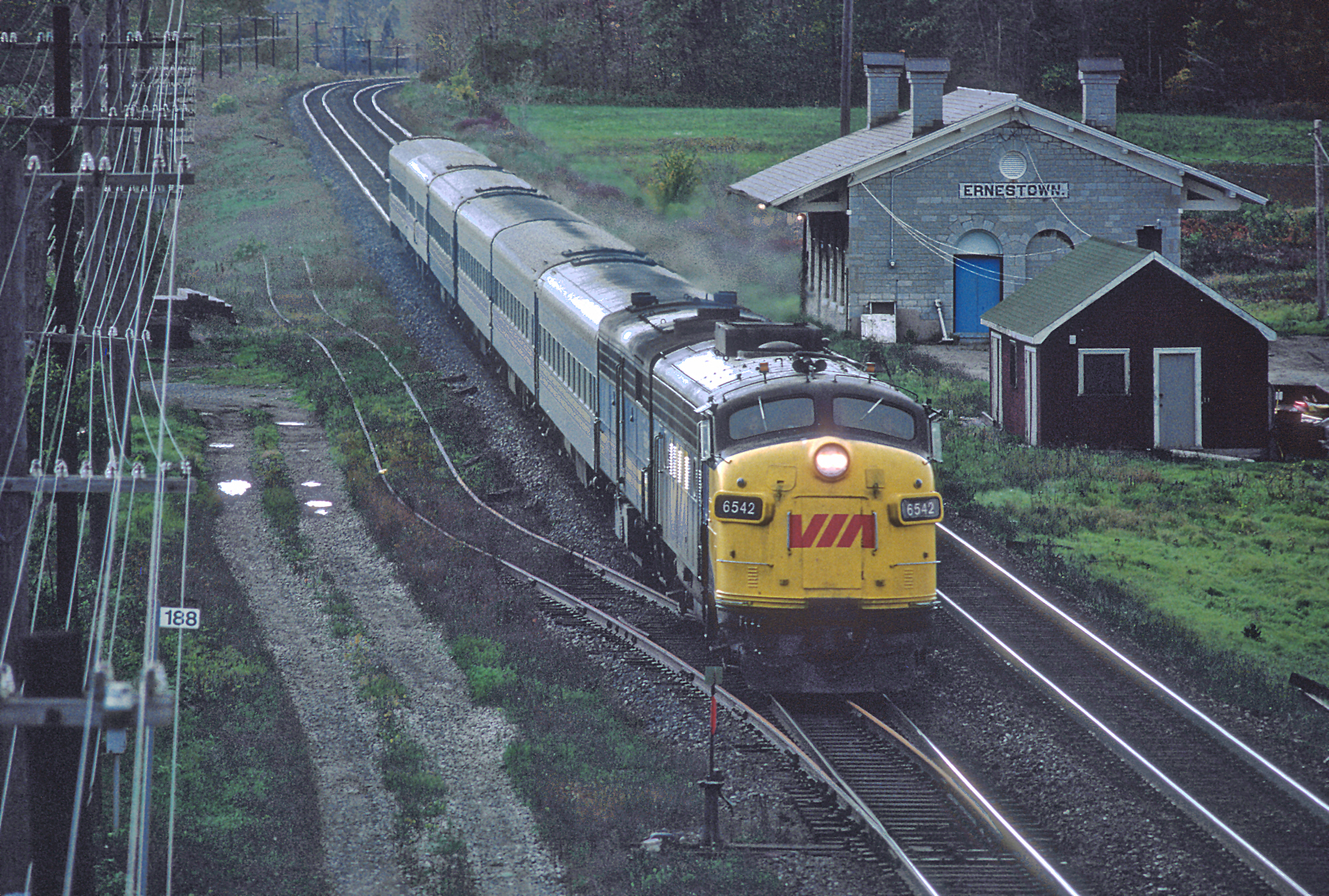 As soon as I saw this scan of Roger Puta's slide I thought of Bert and Ernie. I guess I watched too much Sesame Street with my children. I mean that Ernie could have his own town. Who was this Ernie? Wikipedia told me it was named after Prince Ernest Augustus, fifth son of George III. Well, not the same Ernie. VIA 6542, an FP9, passing Ernestown in eastern Ontario in October 1980. I like the team track. If a set-out got loose, I can vision Bert and Ernie chasing it.